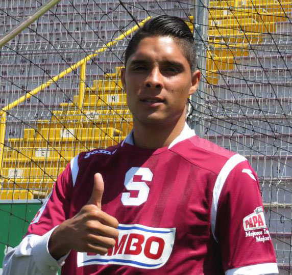 Presentation of Kevin Briceño in 2014